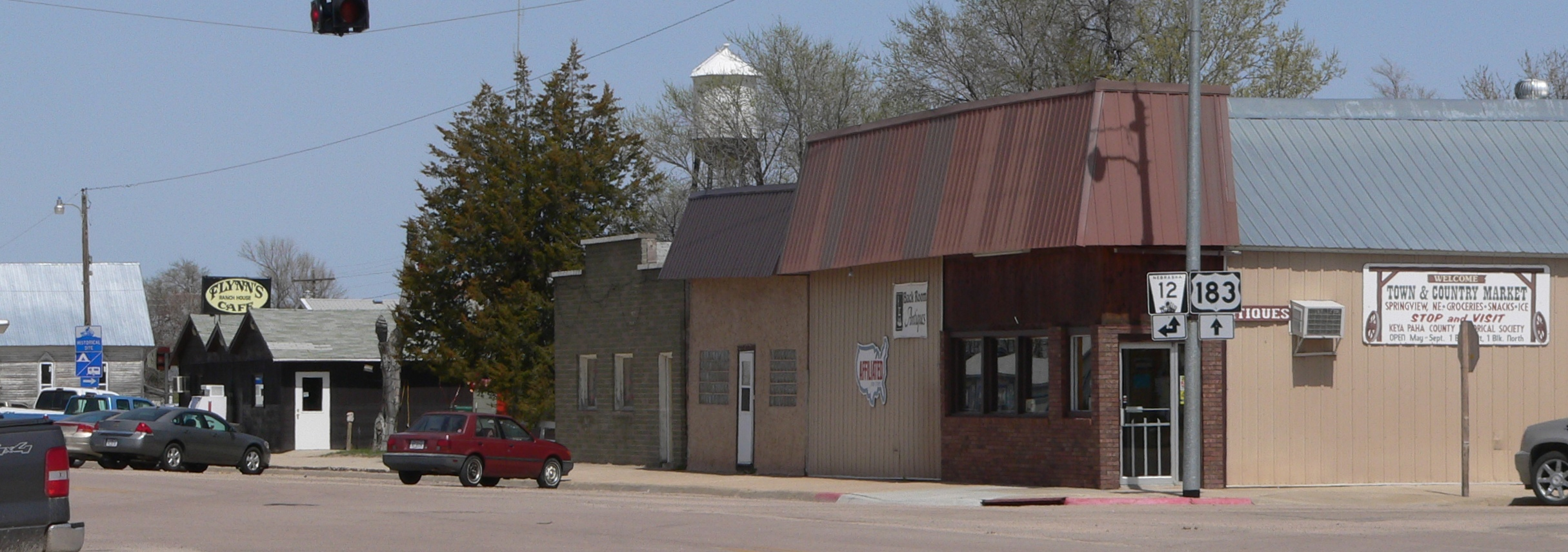 Downtown Springview, Nebraska: east side of Main Street, looking north from Turbine Avenue.